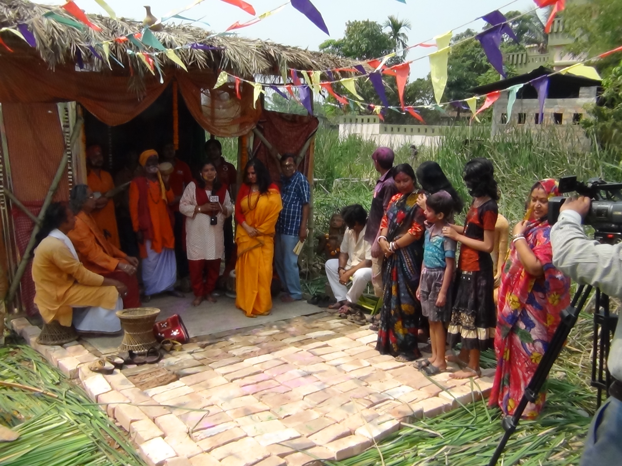 Papia's baul guru Pandit Baul Samrat Purna Das Baul visited Papia's Akhra (ashram) in Kolkata on the colour festival 'Holi'.